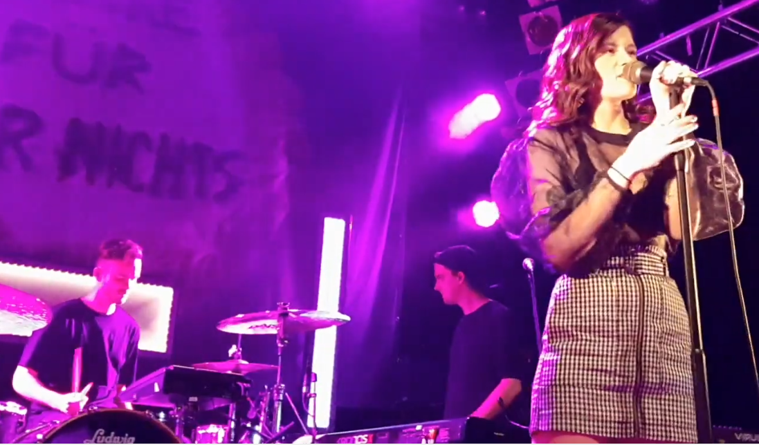 Madeline Juno during her "Was bleibt Tour 2019" in Hamburg.